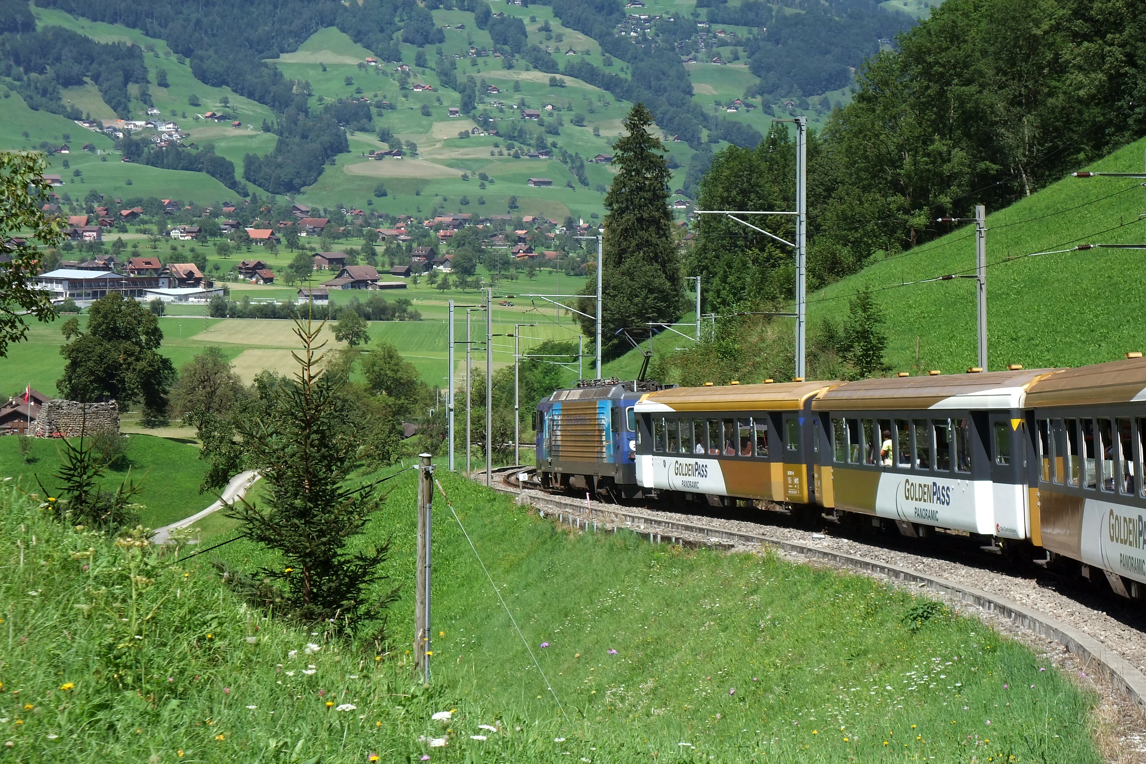 From the Brünig Pass down to Lucerne on a cog wheel section of the GoldenPass line. This is not a real panorama train even though it is labeled, but on the other hand you can open the windows. The real panorama trains run in intervals of 2-3 hours. But in this trains there is a dining car with service. The whole GoldenPass line runs between Luzern and Montreux and makes a shift from narrow to standard gauge with twice change of trains. For more information, see the Wikipedia articles GoldenPass Line, Brünig railway line and Brünig Pass.